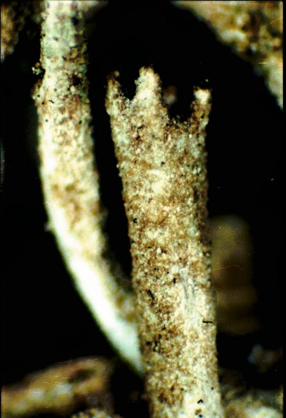 Cladonia decorticata (Flörke) Sprengel, 1827 (photograph of a herbarium specimen taken through a dissecting microscope (x40) showing the terminal cup of a podetium) Growing on soil in Jack Pine woods near Crumley Creek off US-68, Cheboygan County, Michigan, USA; collected and identified by Richard E. Riefner (No. 81-455, 14 Jul 1981); specimen is now in the Lichen Herbarium of the New York Botanical Garden.